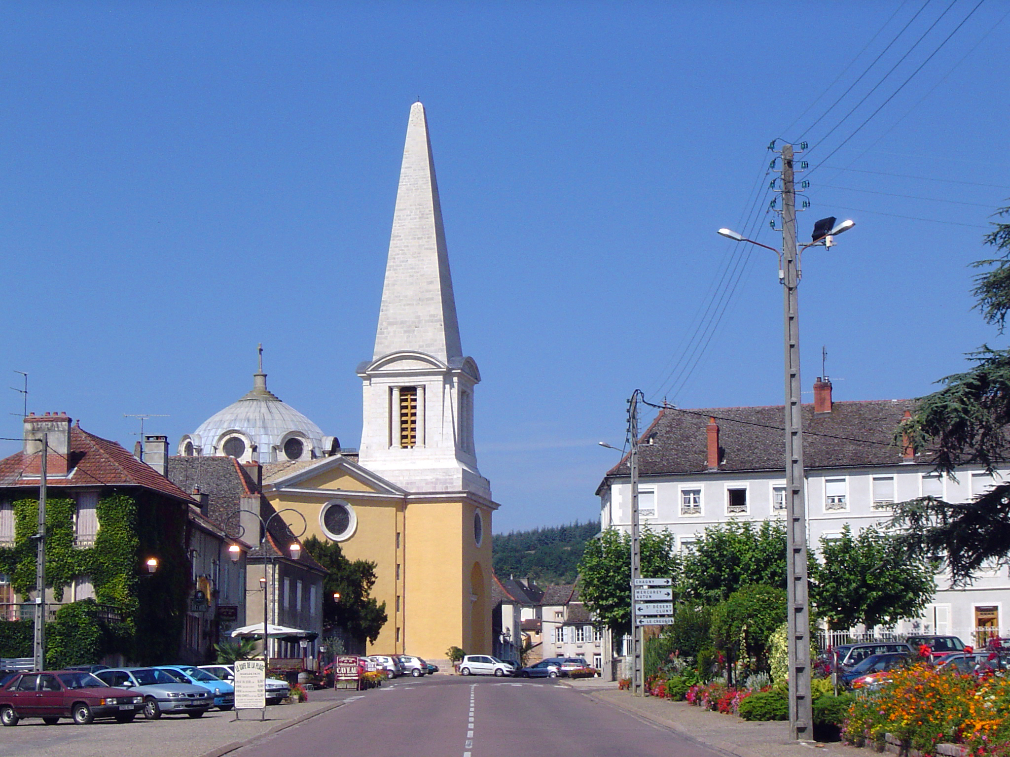 The church of Givry, France, seen from Avenue de Châlon.